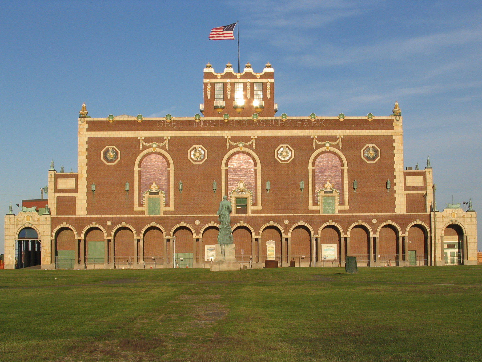 Photo by User DCwom